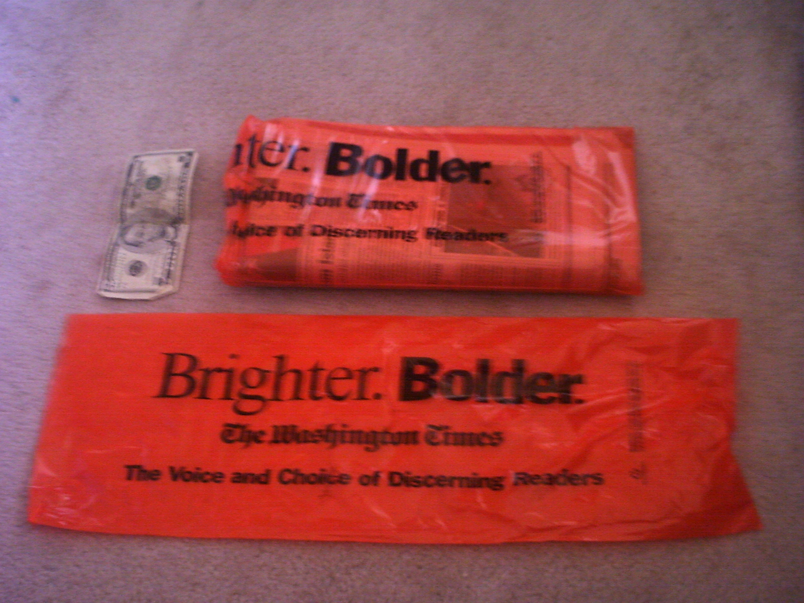 Photo of container bags of The Washington Times newspaper, one opened, the other folded around a paper, along with a U.S. $5 bill for size comparison.